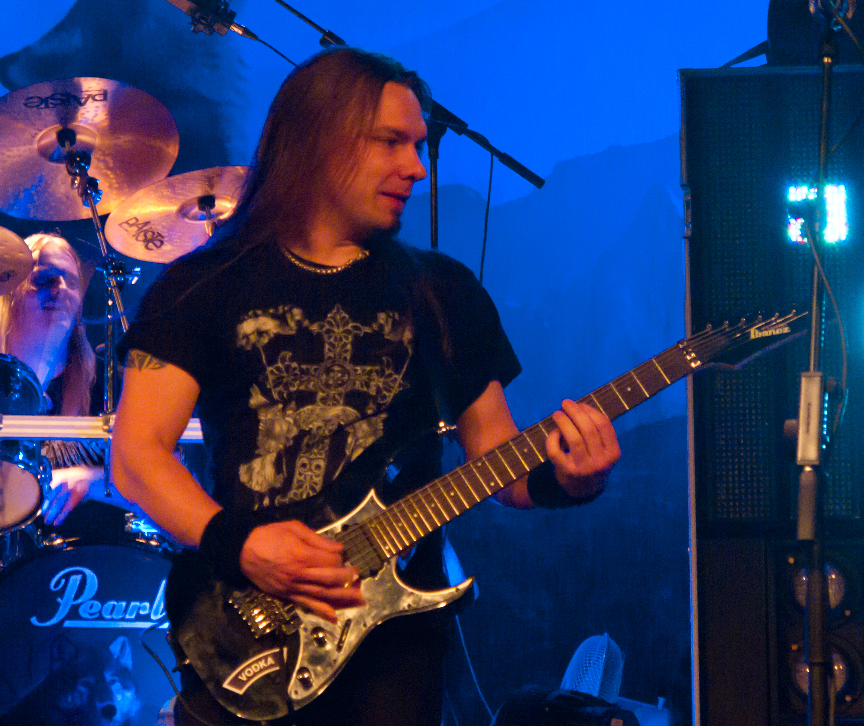 Elias Viljanen (Sonata Arctica) in concert.